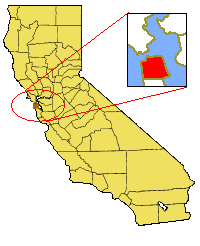 Volapük: Topam in tat: California.